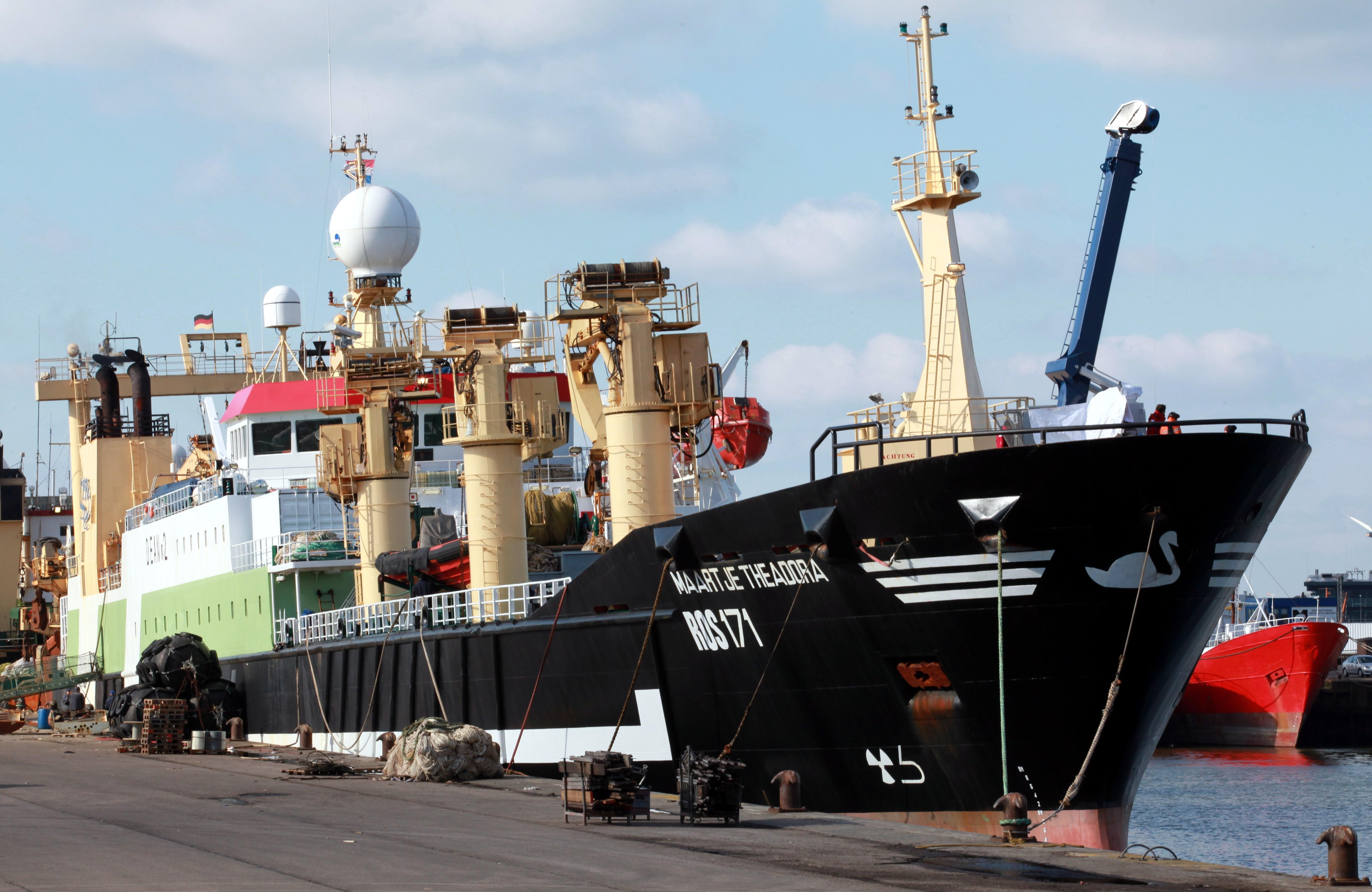 see note on attachment point for giant kite -SkySails-Antrieb